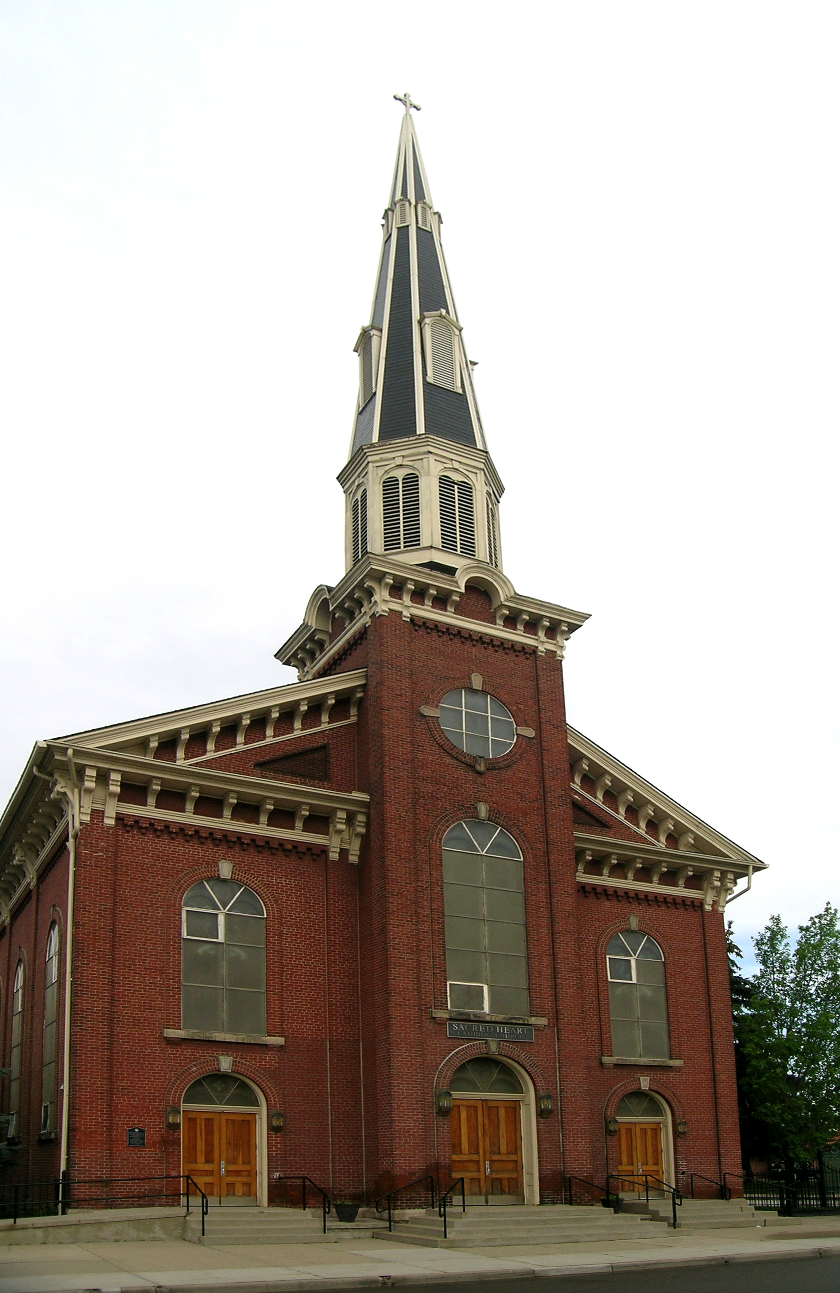 The facade of the Sacred Heart Catholic church in Detroit, Michigan, USA.